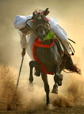 Tent pegger approaches the wooden peg [ half buried in the ground ], and strikes it with his lance. If he pulls the peg successfully and carries it beyond next 10 feet, he gets full marks [ 4 points ] and moves to the next round. If he drops the peg before crossing 10 feet line from the strike point, he gets 2 points and a second chance to strike. But if he touches the peg only, or fails to pull it, he drops from the competition and gets no point.